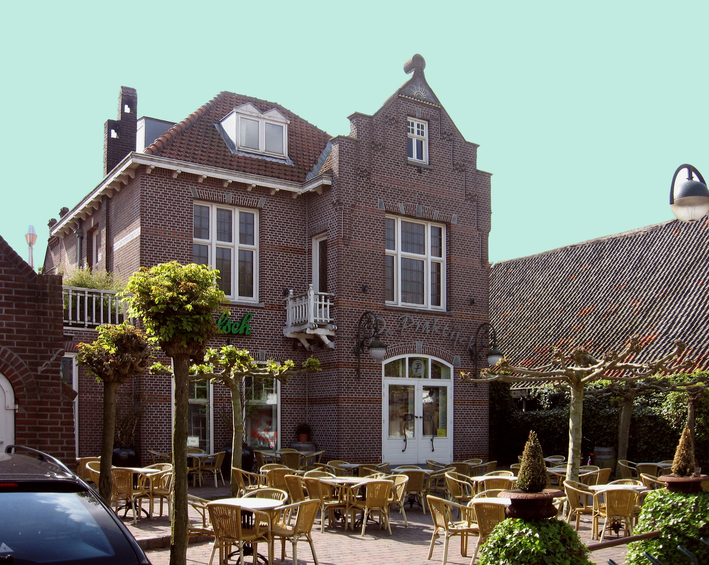 Raamsdonksveer 3 2010.jpg, characteristic buildings Hoofdstraat 12